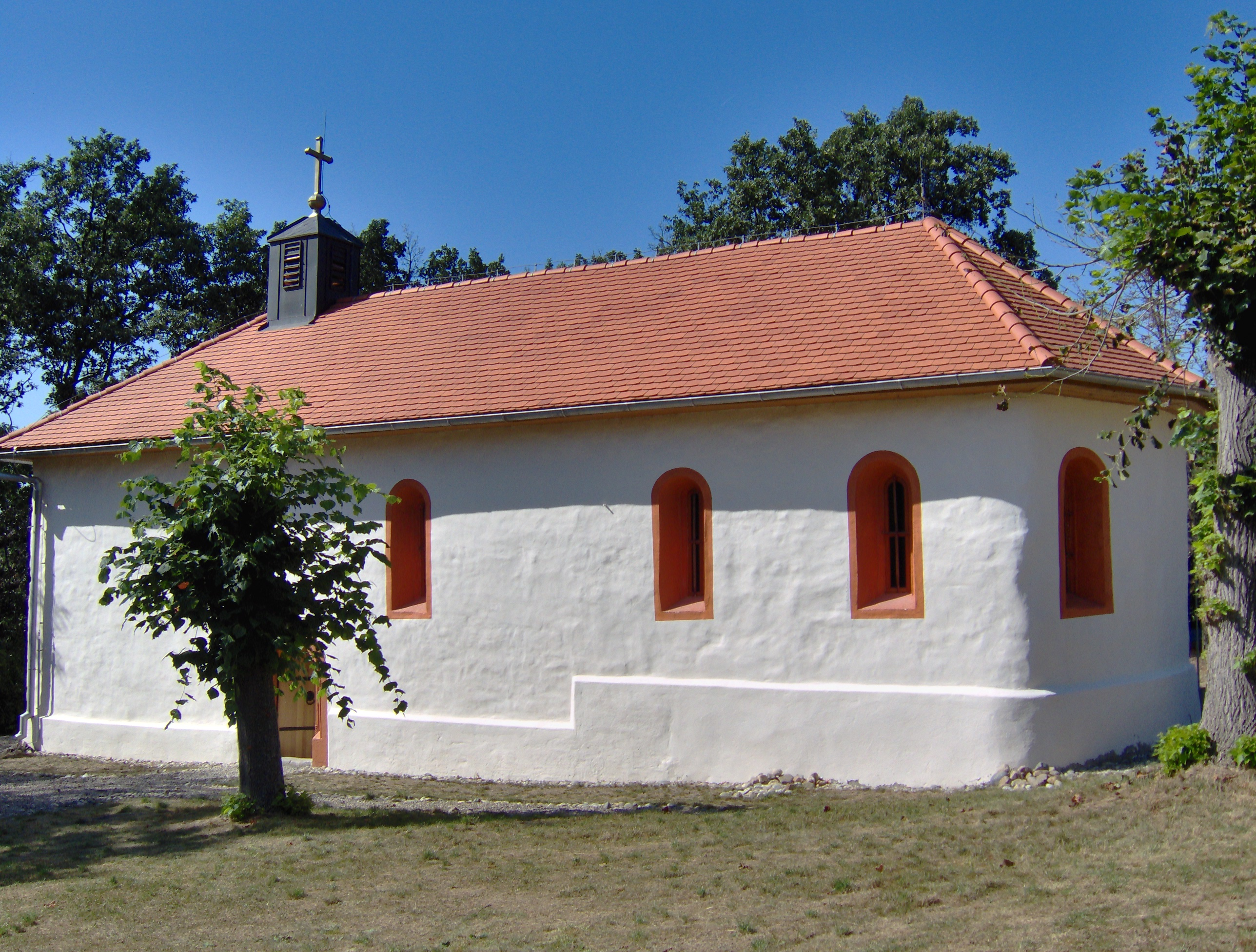 Demandice, church